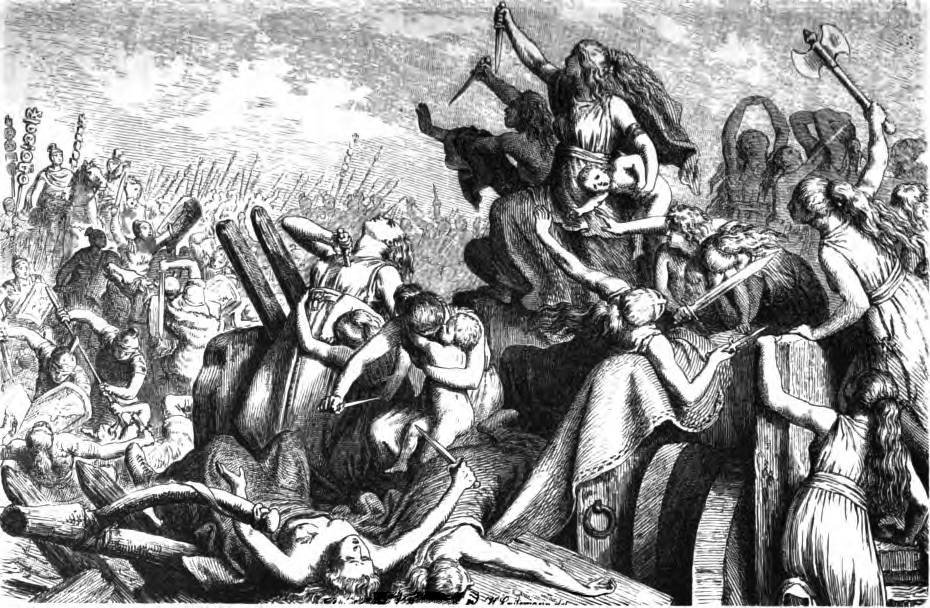 Captioned as "Die Frauen der Teutonen verteidigen die Wagenburg". The women of the Teutons defend the wagon fort. (Despite what the artist named the work, the image clearly shows the women killing their own infants and committing suicide, as described in the Wiki article where this image appears Tuetons )